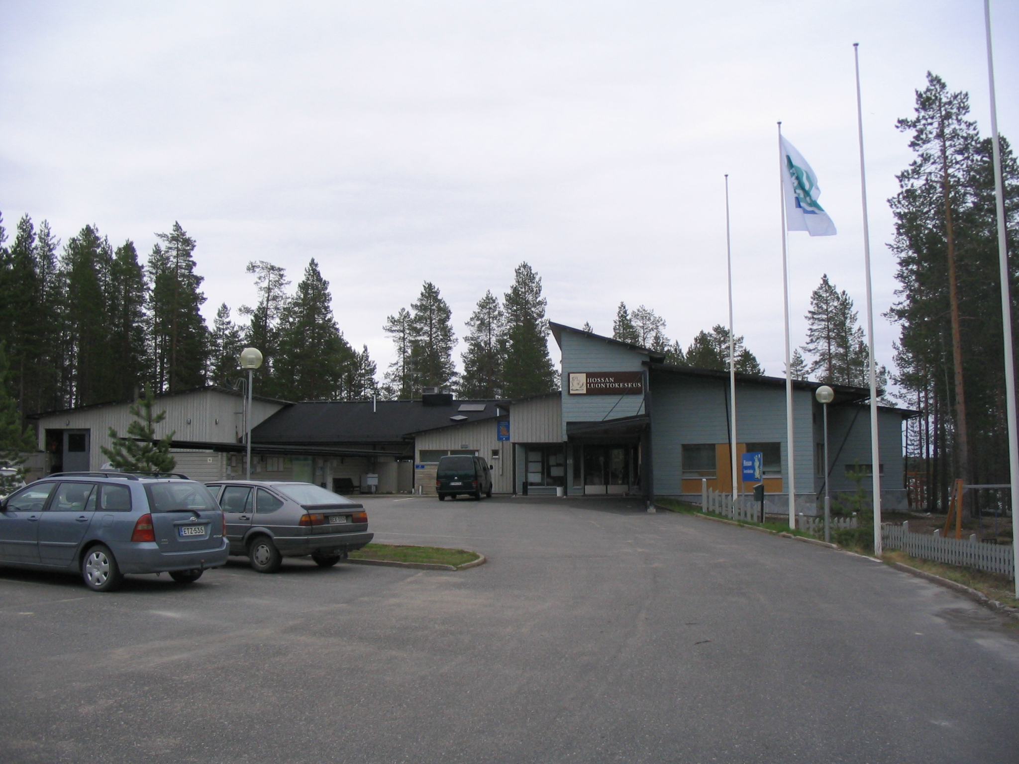 The visitor center at the Hossa hiking area, Suomussalmi, Finland.